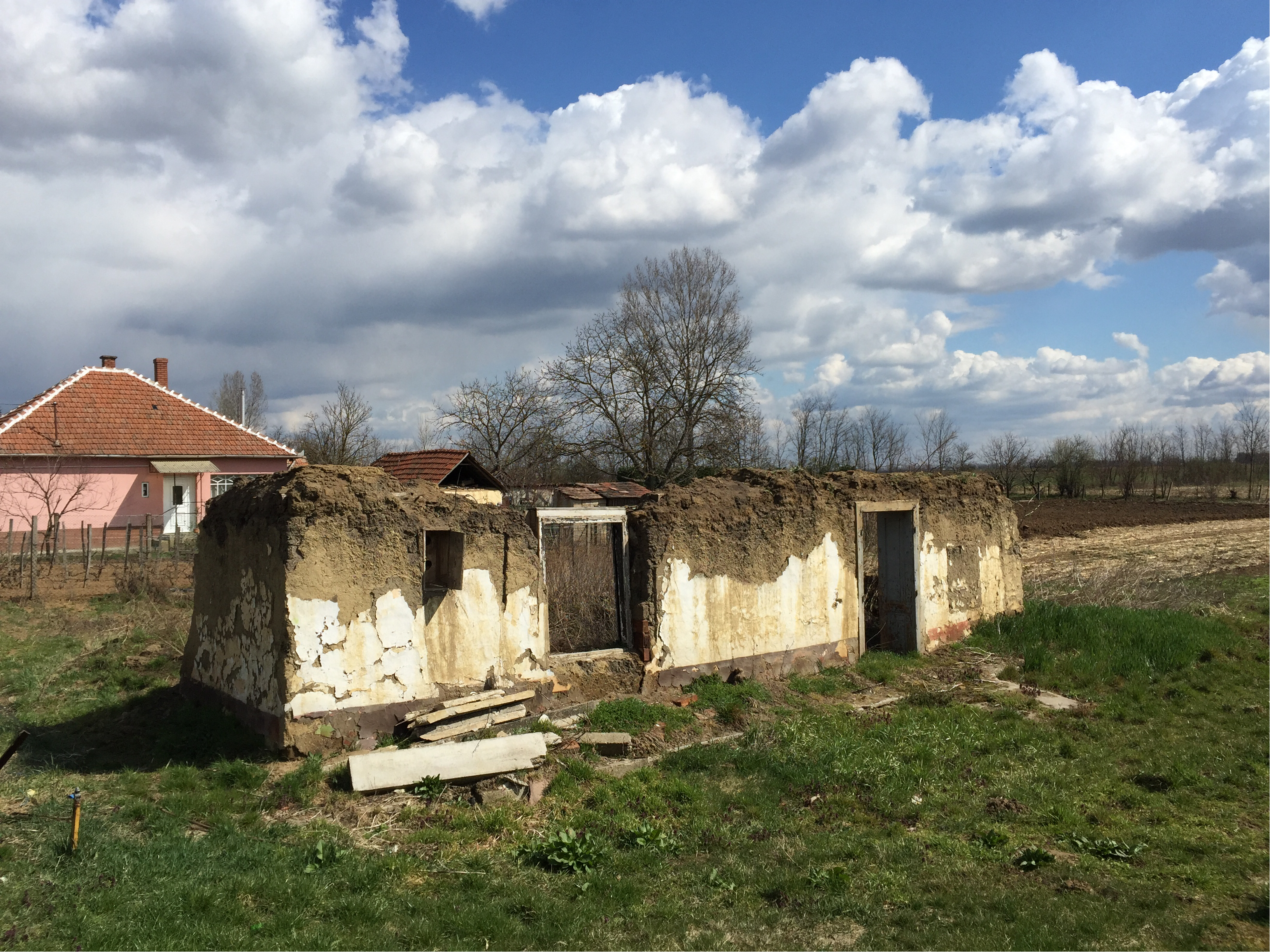 Abandoned house in Zalkod